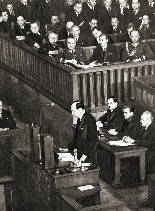 Polish Minister of Foreign Affairs Józef Beck in session of Polish Sejm 5 May 1939, rejecting Hitler's ultimate conditions towards Poland